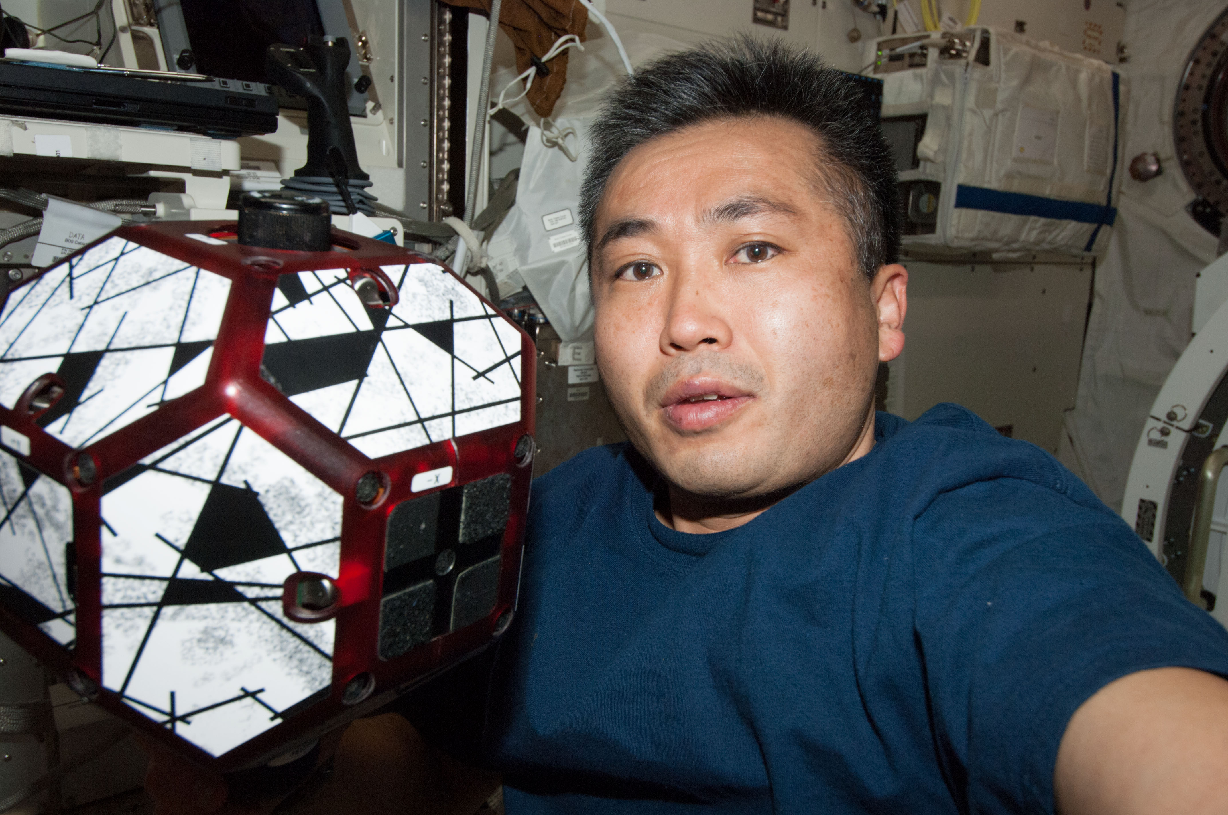 In the International Space Station's Kibo laboratory, Japan Aerospace Exploration Agency astronaut Koichi Wakata, Expedition 38 flight engineer, poses for a photo while conducting a session with a pair of bowling-ball-sized free-flying satellites known as Synchronized Position Hold, Engage, Reorient, Experimental Satellites, or SPHERES.